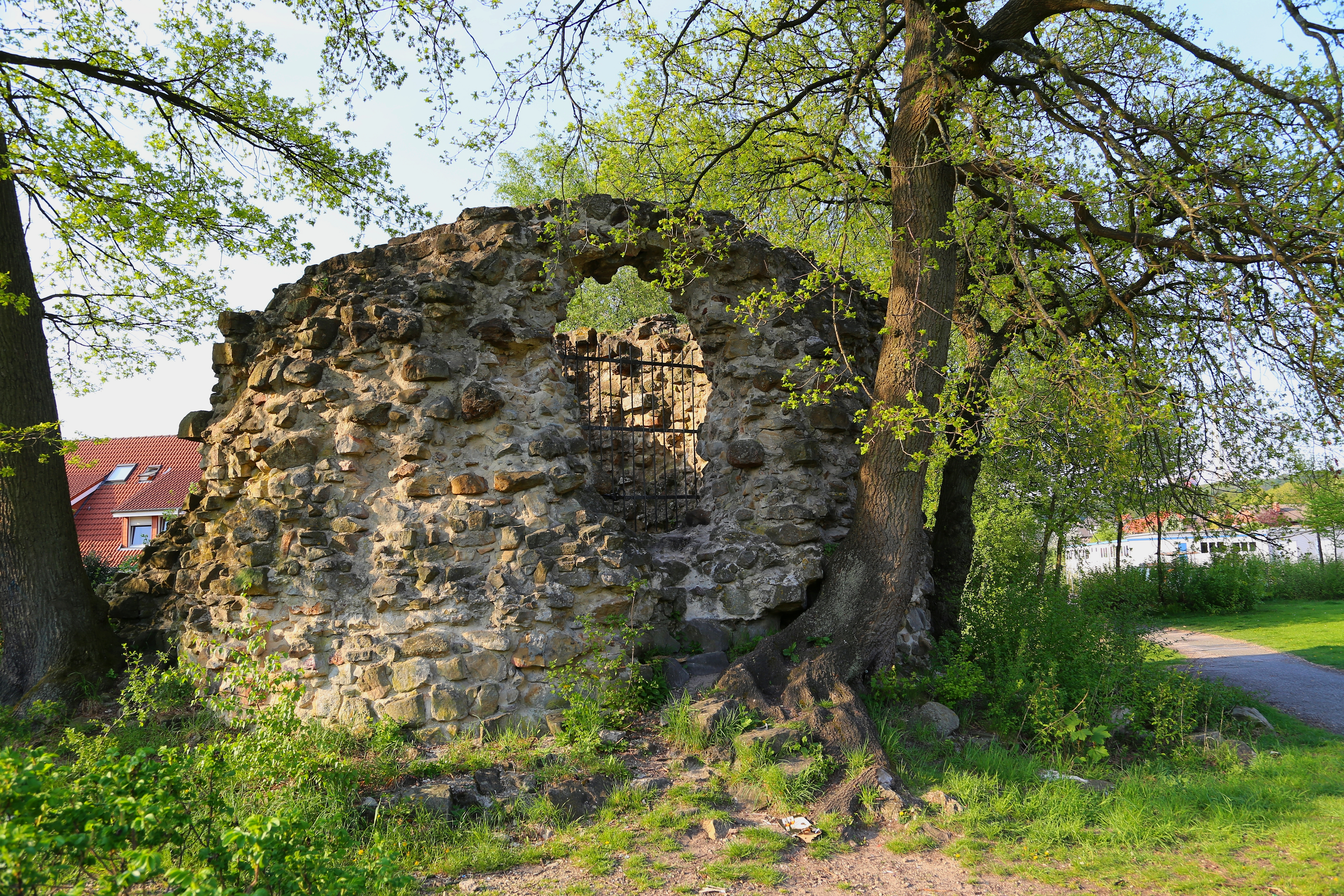 Ruin of the Heidenturm near the Aasee in the city of Ibbenbüren, Kreis Steinfurt, North Rhine-Westphalia, Germany.